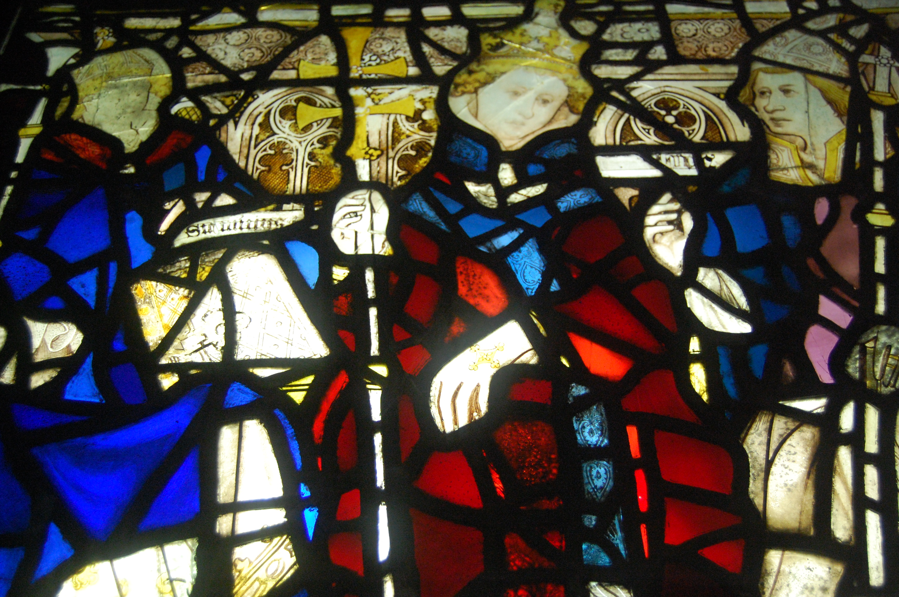 Conserved stained glass at York Minster, York, UK. December 2008.